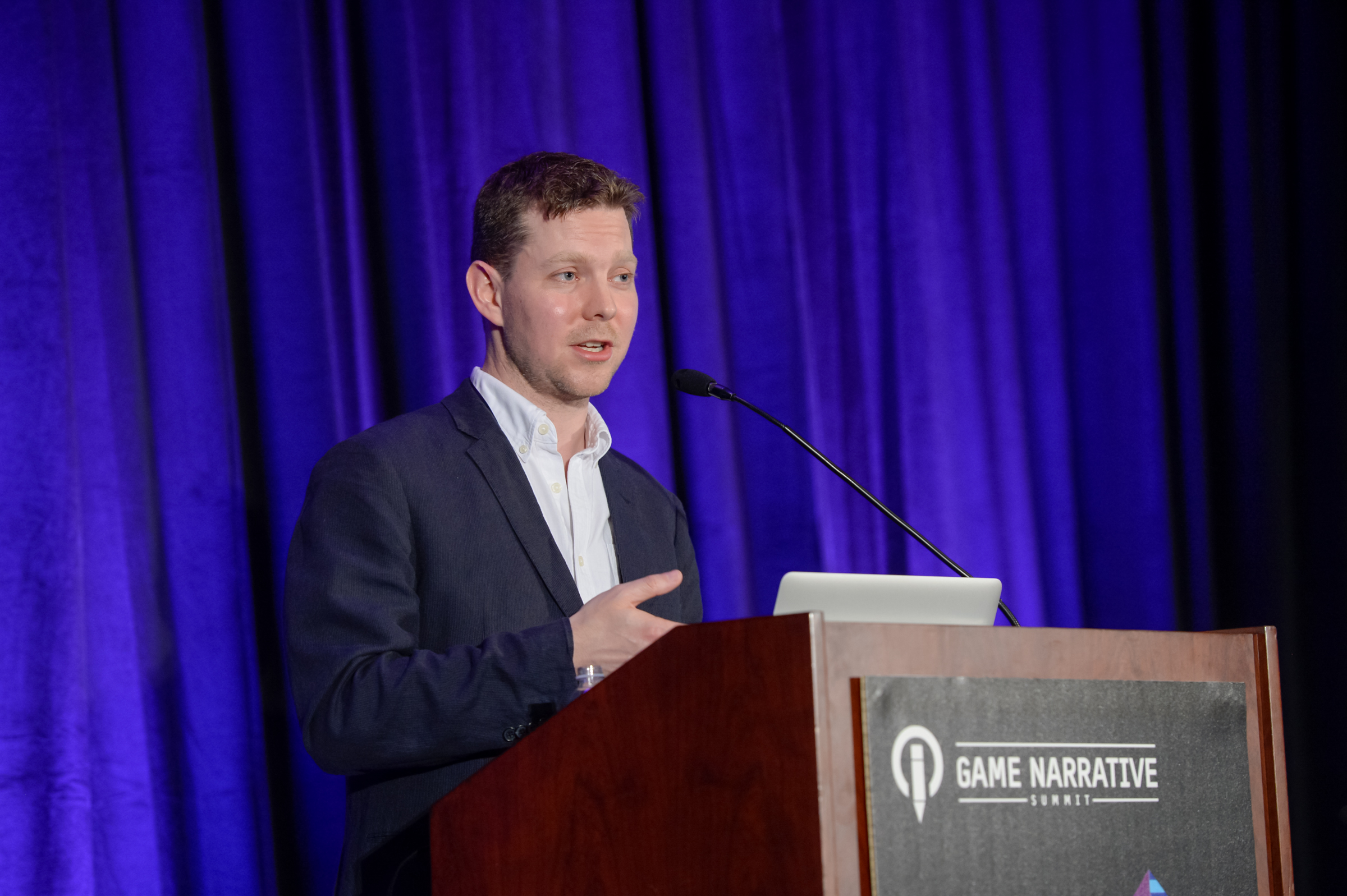 Making 'Her Story' - Telling A Story Using The Player's Imagination